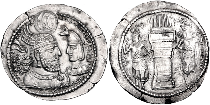 SASANIAN KINGS. Vahrām (Bahram) II, with Prince 3. AD 276-293. AR Drachm (26.5mm, 4.05 g, 3h). Style I. 'Balkh' mint. Confronted busts of Vahrām (Bahram) right, wearing winged crown with korymbos, and Prince 3 left, wearing kolah with boar’s head / Fire altar; flanked by two attendants, the left wearing winged crown with korymbos, the other wearing mural crown; hwpy/hrpy in Pahlavi flanking flames. SNS type III/1, Style I; Sunrise 776; CNG 103, lot 518. EF, traces of deposits, striking fractures, crystallized. Very rare.